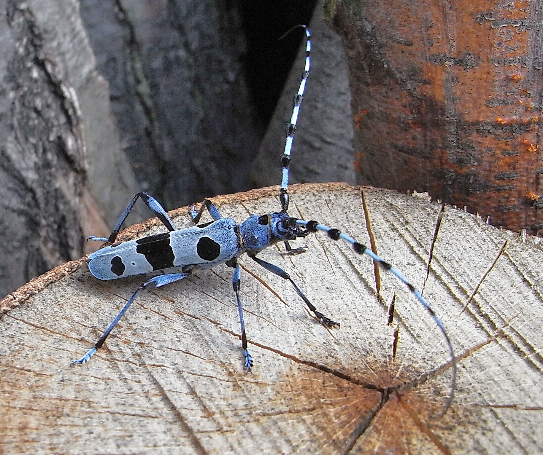 Rosalia alpina from Matra-mountains in Hungary, end of June 2010 Ricoh R8